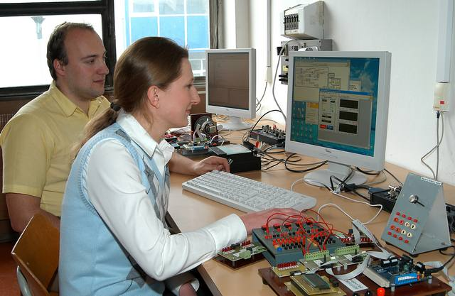 Student laboratory of microprocessor control (Faculty of Mechanical Engineering, CTU in Prague)